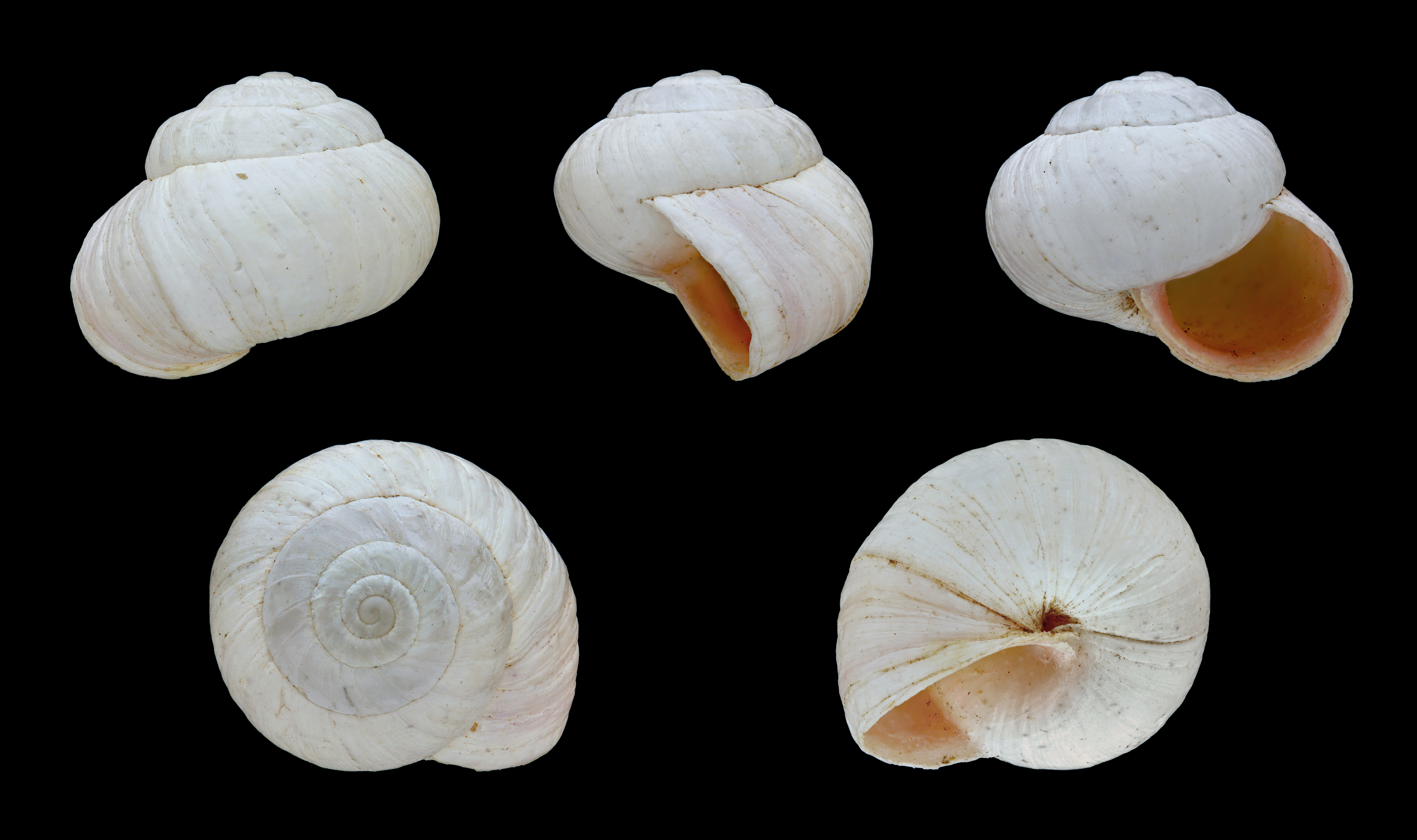 White garden snail; Diameter 1.6 cm; Originating from sand dunes 5 km east of Mastichari, Kos, Greece, 36°51′45.15″N 27°6′58.94″E / 36.8625417°N 27.1163722°E; Shell of own collection, therefore not geocoded.